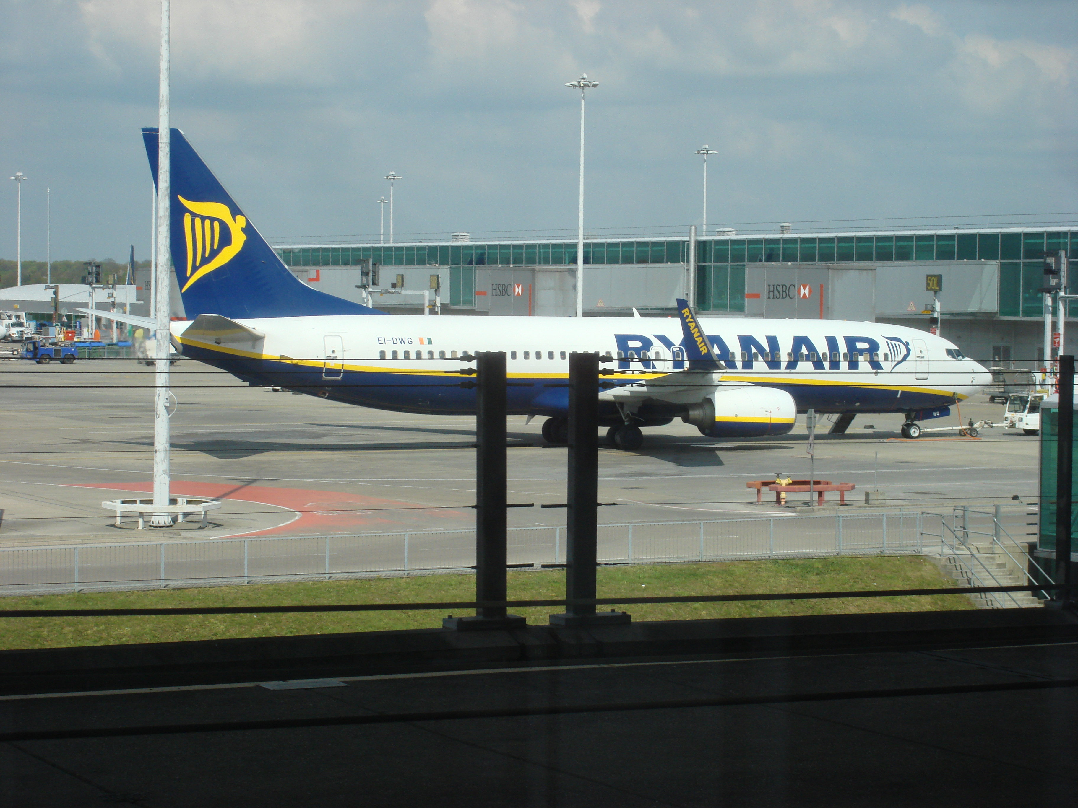 Ljubljana